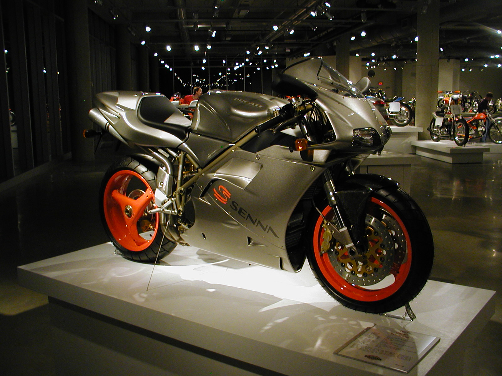 Ducati 916, special edition Senna II 1997. Commissioned with Ayrton Senna for his charity prior to his death..